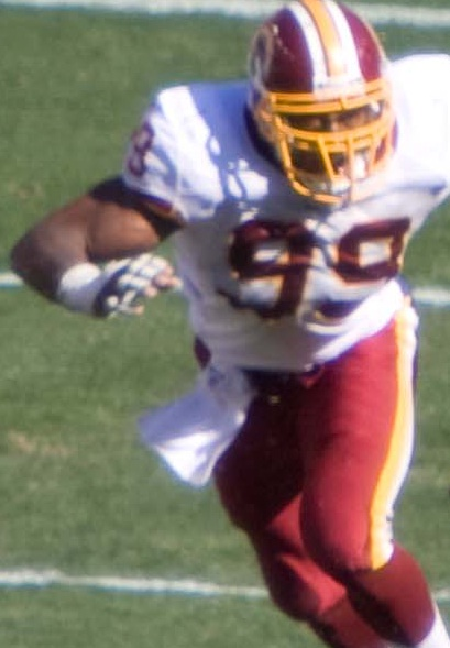 Andre Carter